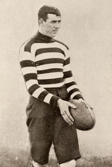 Photograph of Percy Martini from the 1910 Weekly Times Victorian Footballer Postcard Series